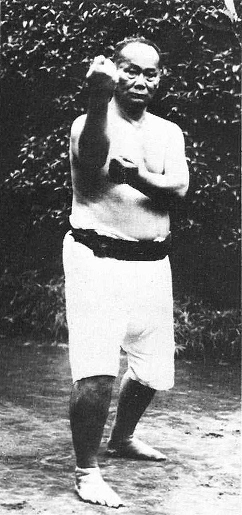 Motobu Choki in "Meoto-de"(man and wife Kamae, an oldest karate posture)